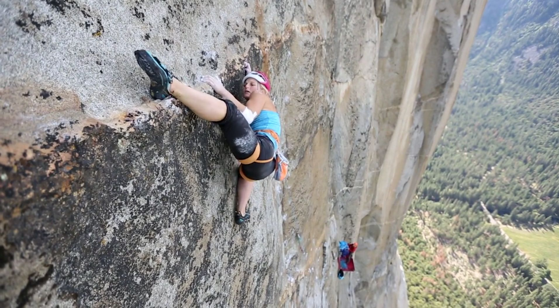 A frame from the video about Emily Harrington climbing Golden Gate (5.13 VI, 41 pitches) on El Capitan in May 2015.